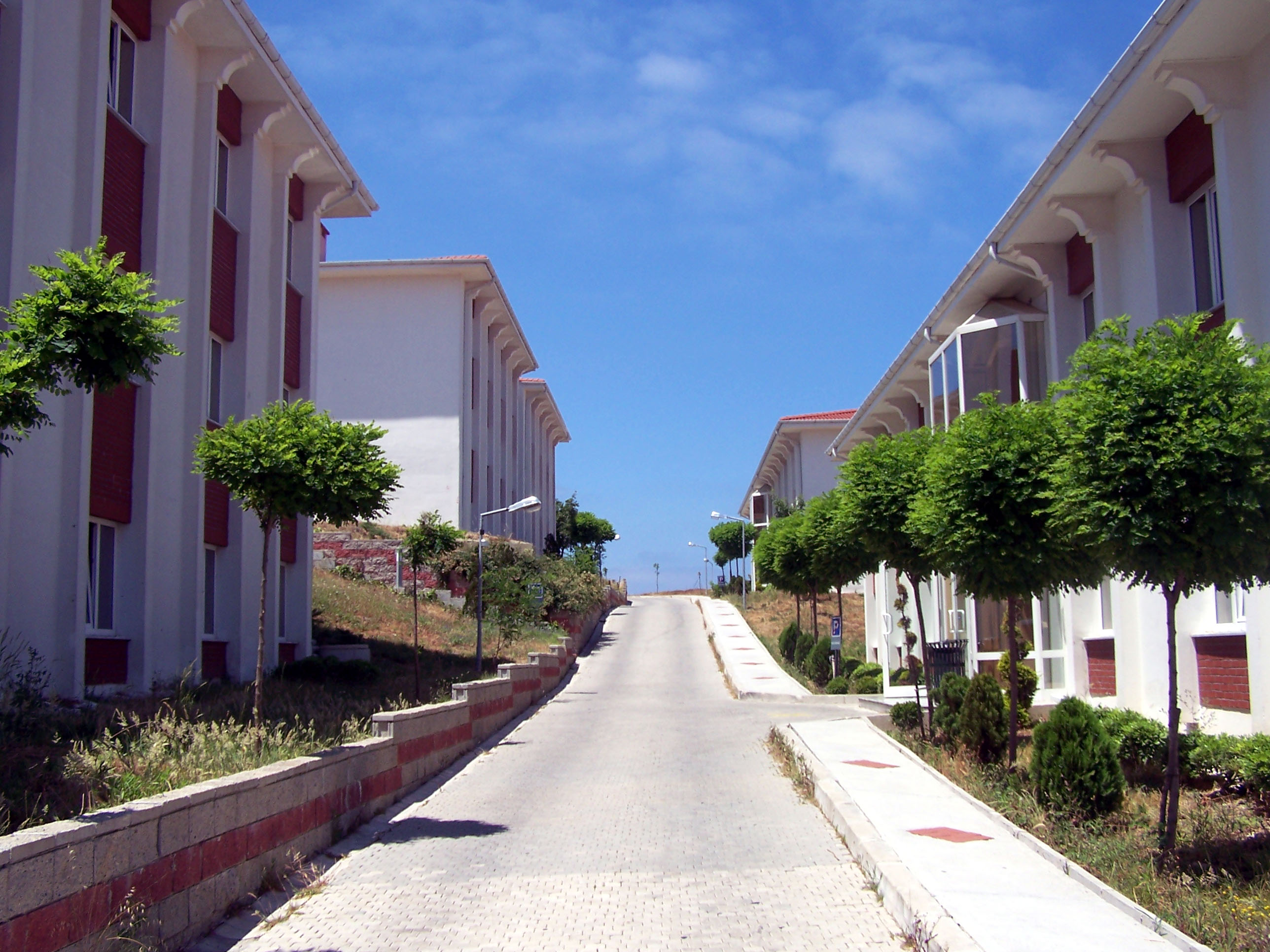 Mavi Yurtlar (Blue Dormitories) at the Işık Üniversitesi